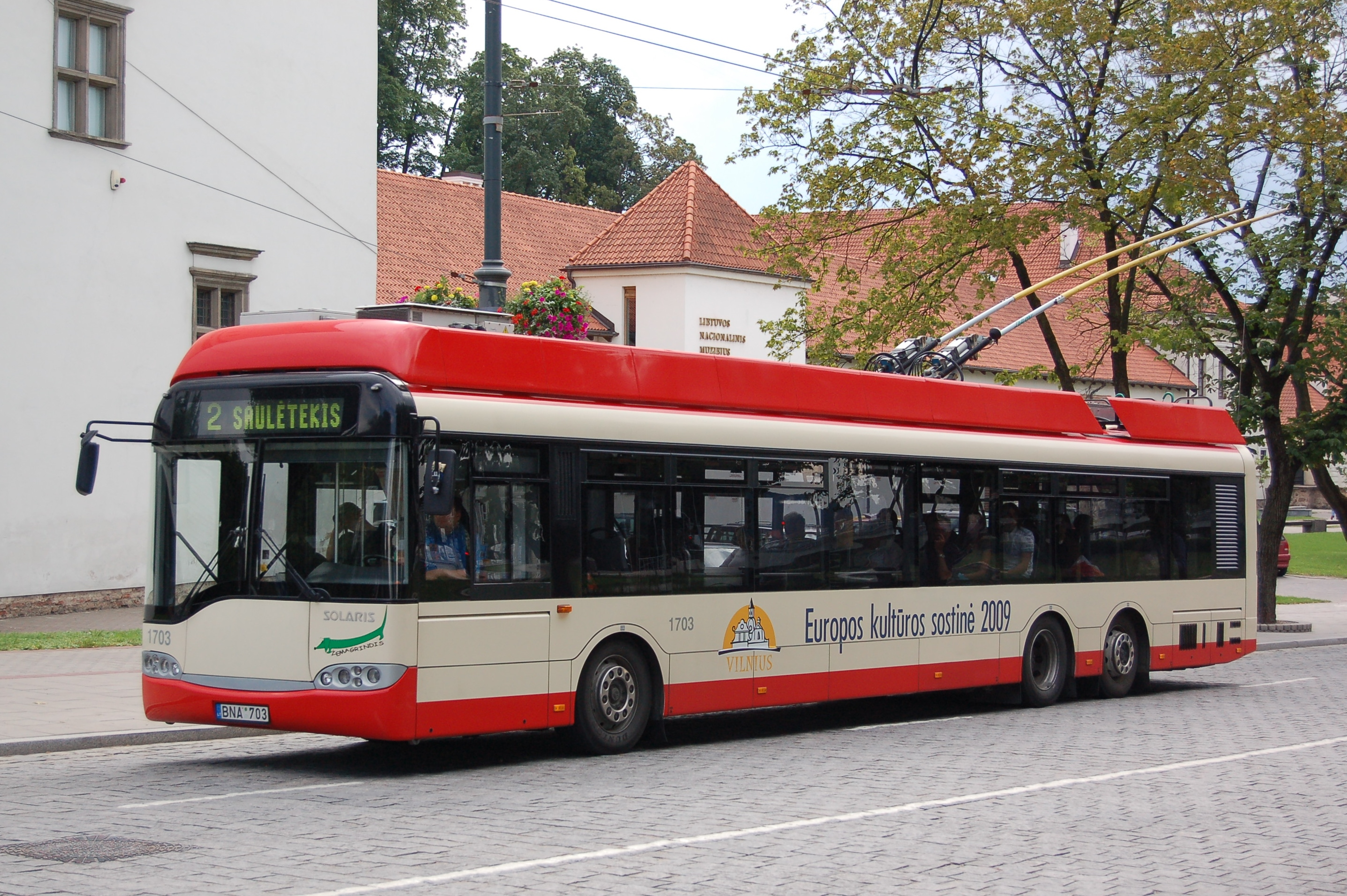 Solaris Trollino 15AC trolleybus in Vilnius, Lithuania. Text on the side of the trolleybus "Europos kultūros sostinė 2009" in English means "European Capital of Culture 2009".